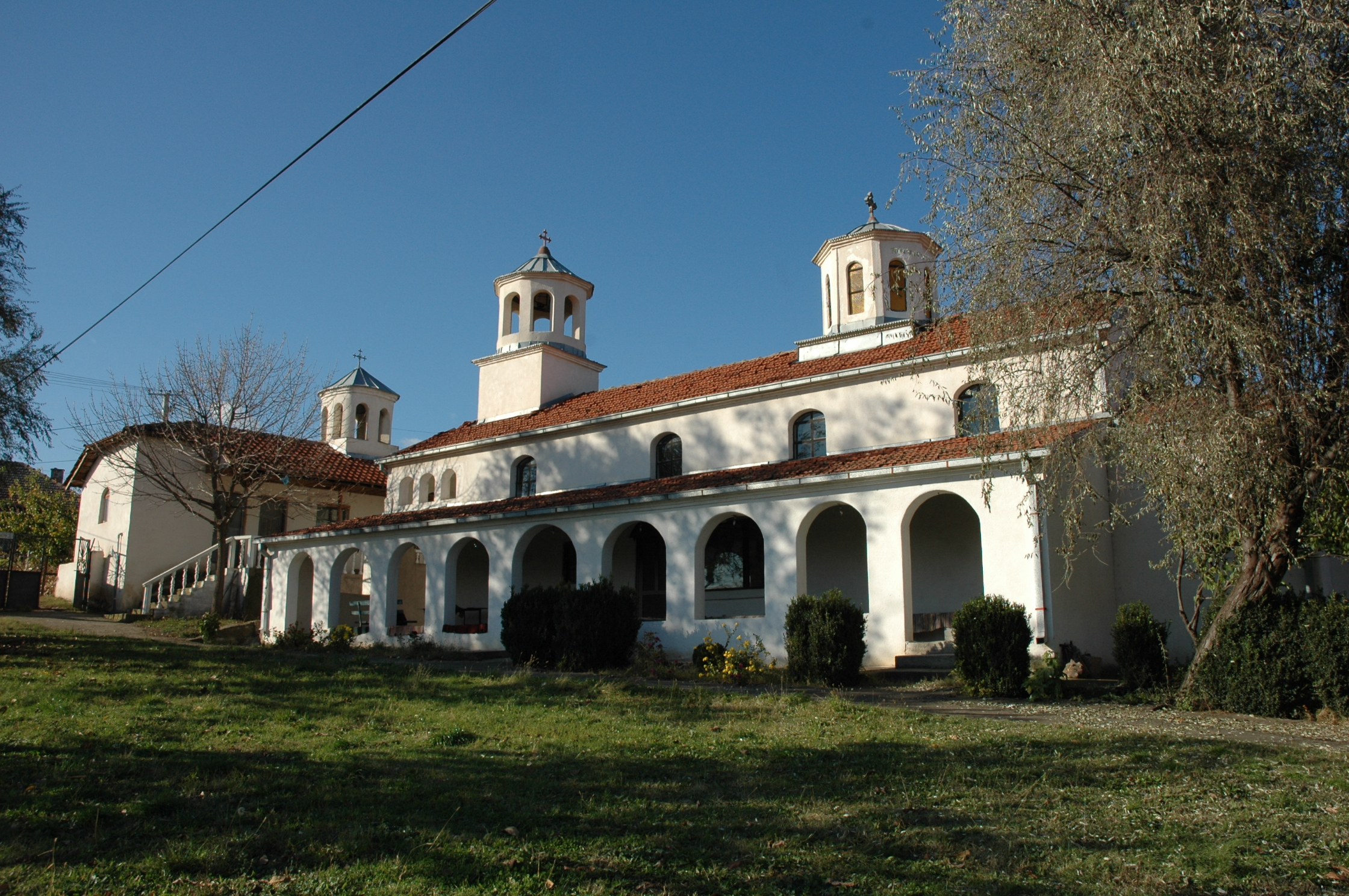 Црква